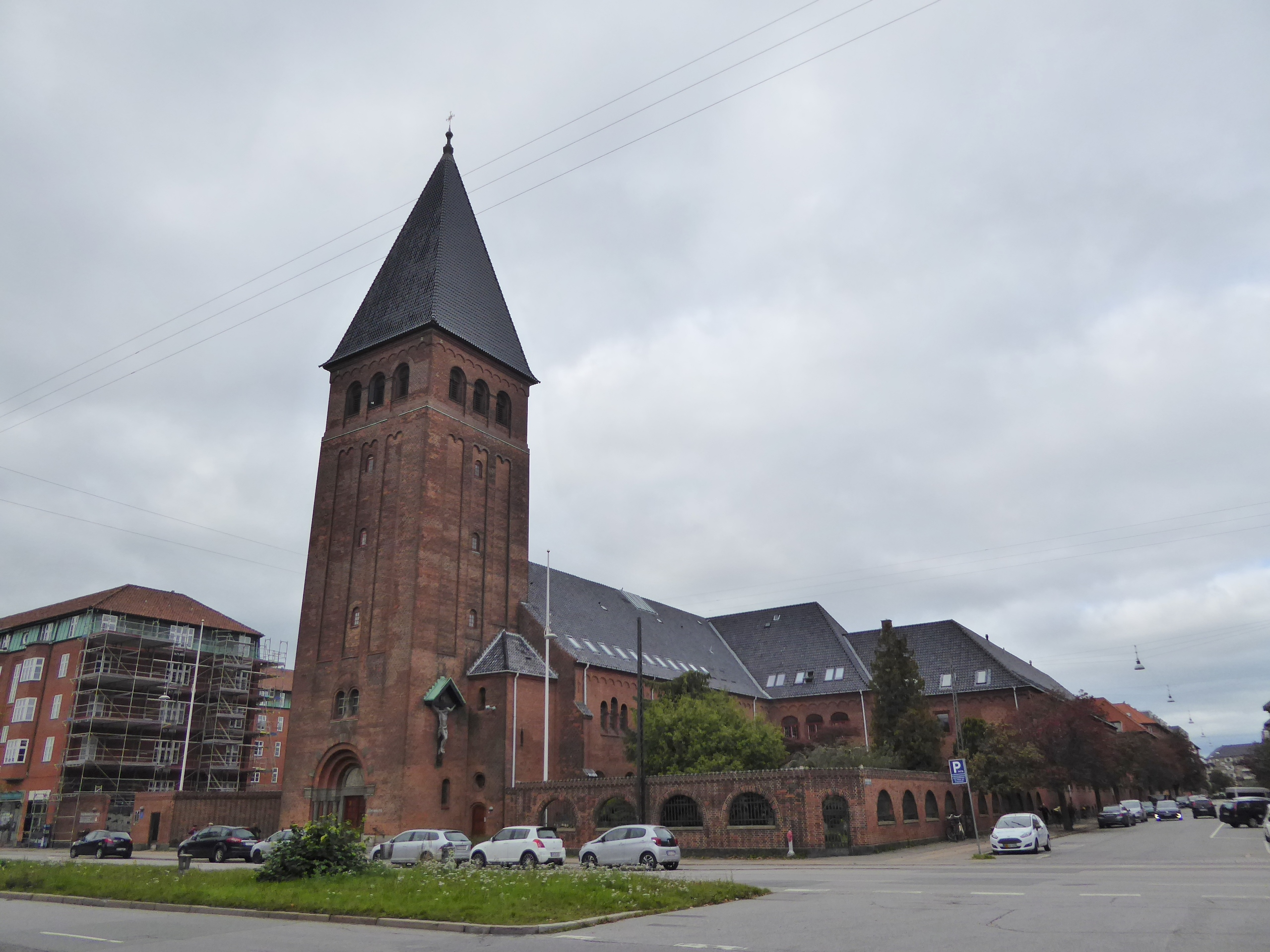 Sankt Augustins Kirke at Jagtvej in Østerbro in Copenhagen.